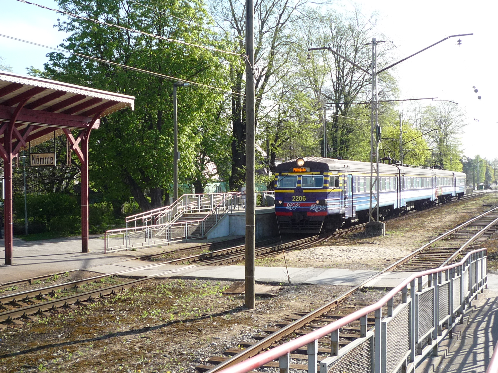 Tallinn-Pääsküla passenger train in Nõmme station. View from south. Estonia.